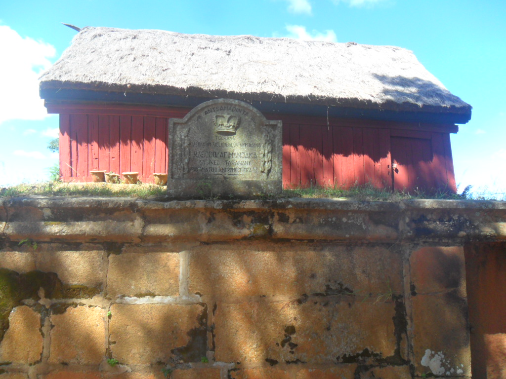 Tombeau de Rabodozafimanjaka épouse du Roi Andrianampoinimerina dans l'enceinte royale de la colline sacrée d'Antsahadinta